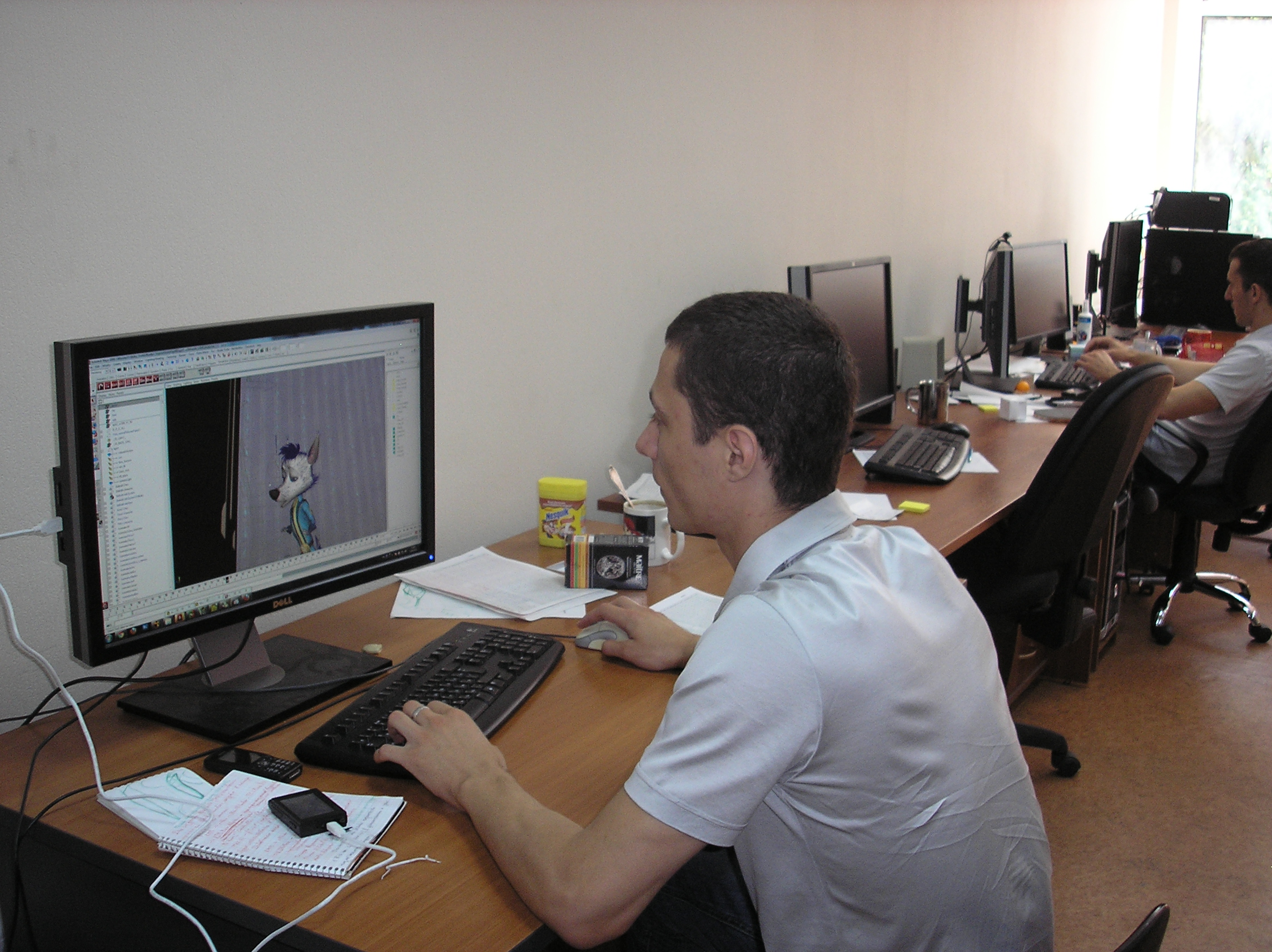 Process of creating in "CNF-Anima" animation studio